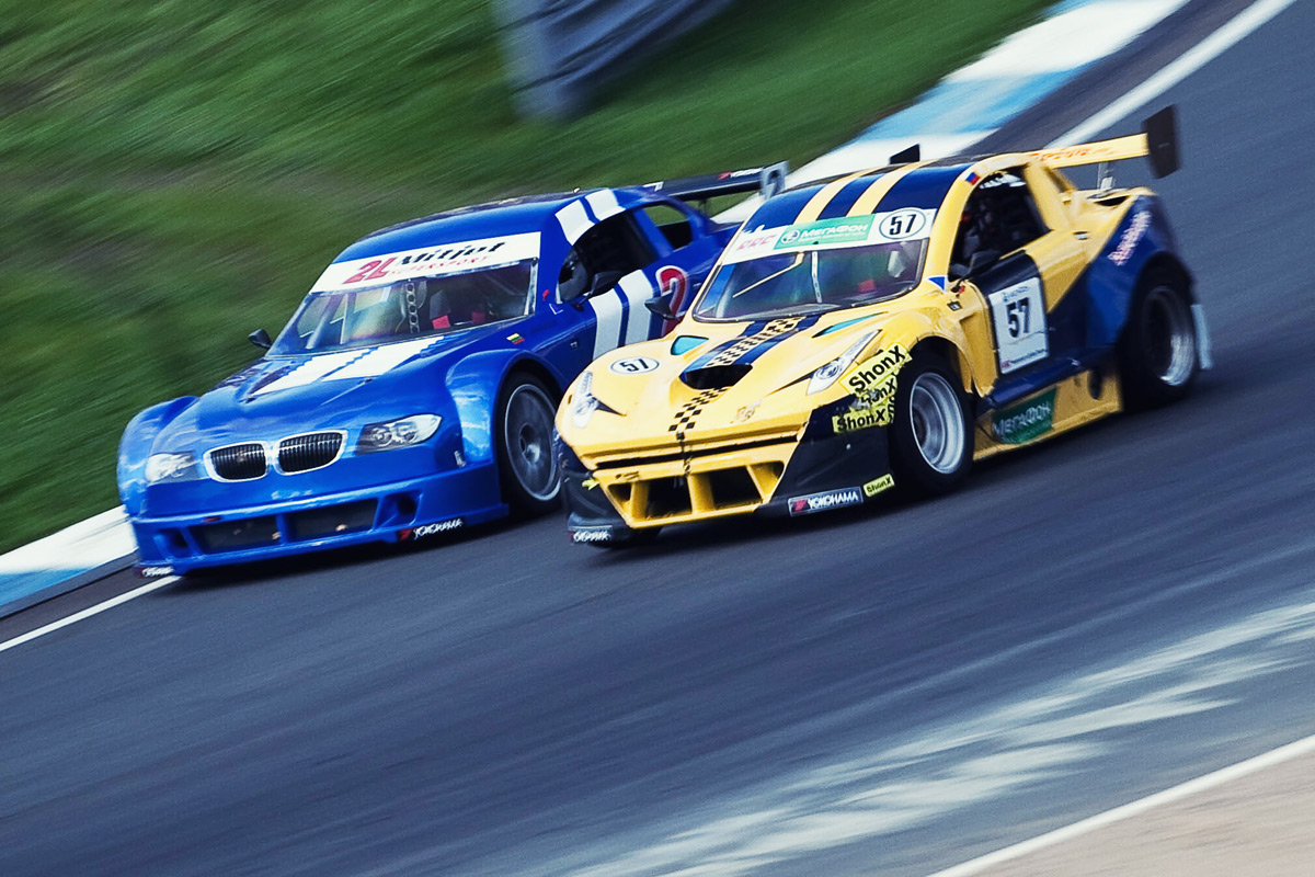 MitJets